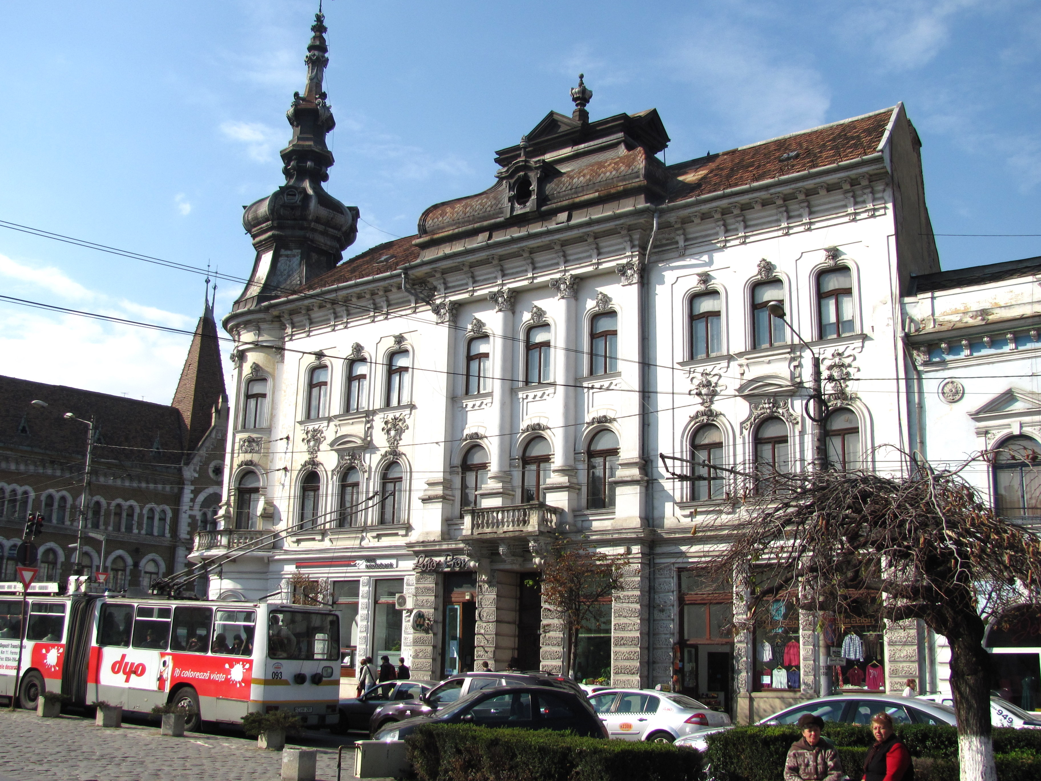 Mihai Viteazul Square